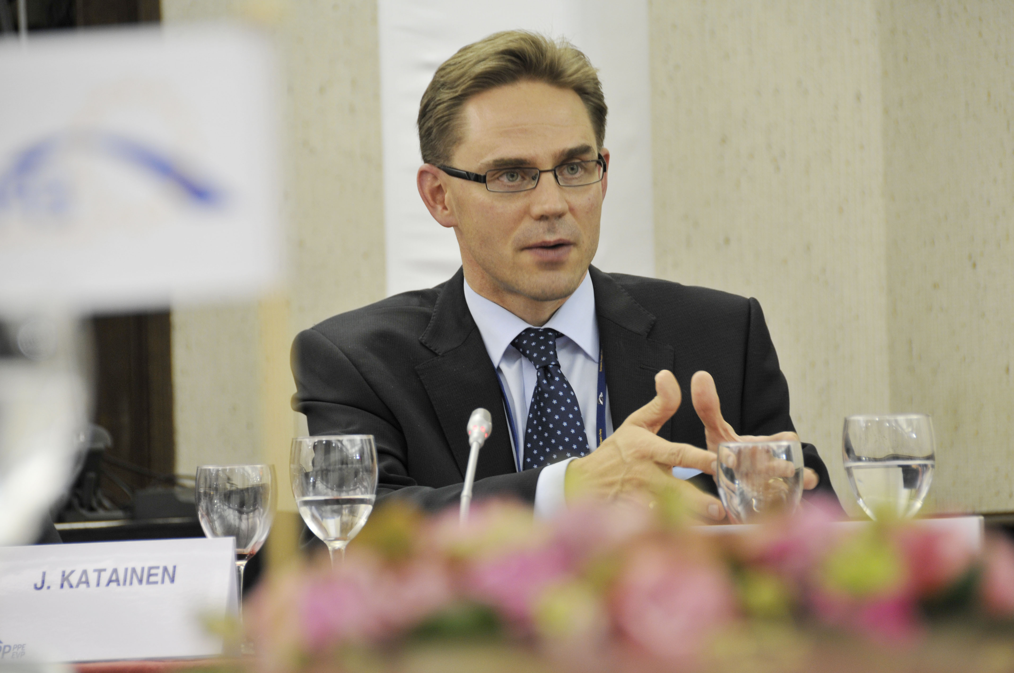 Jyrki Katainen, Finance minister of Finland at European People's Party Summit in Meise, Belgium